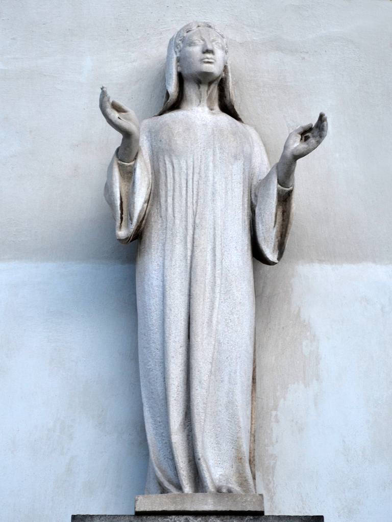 Bedřich Stefan: Orantka (1940-55), mramor, pravý boční portál Kostela Nejsvětějšího srdce Páně (Vinohrady), Praha